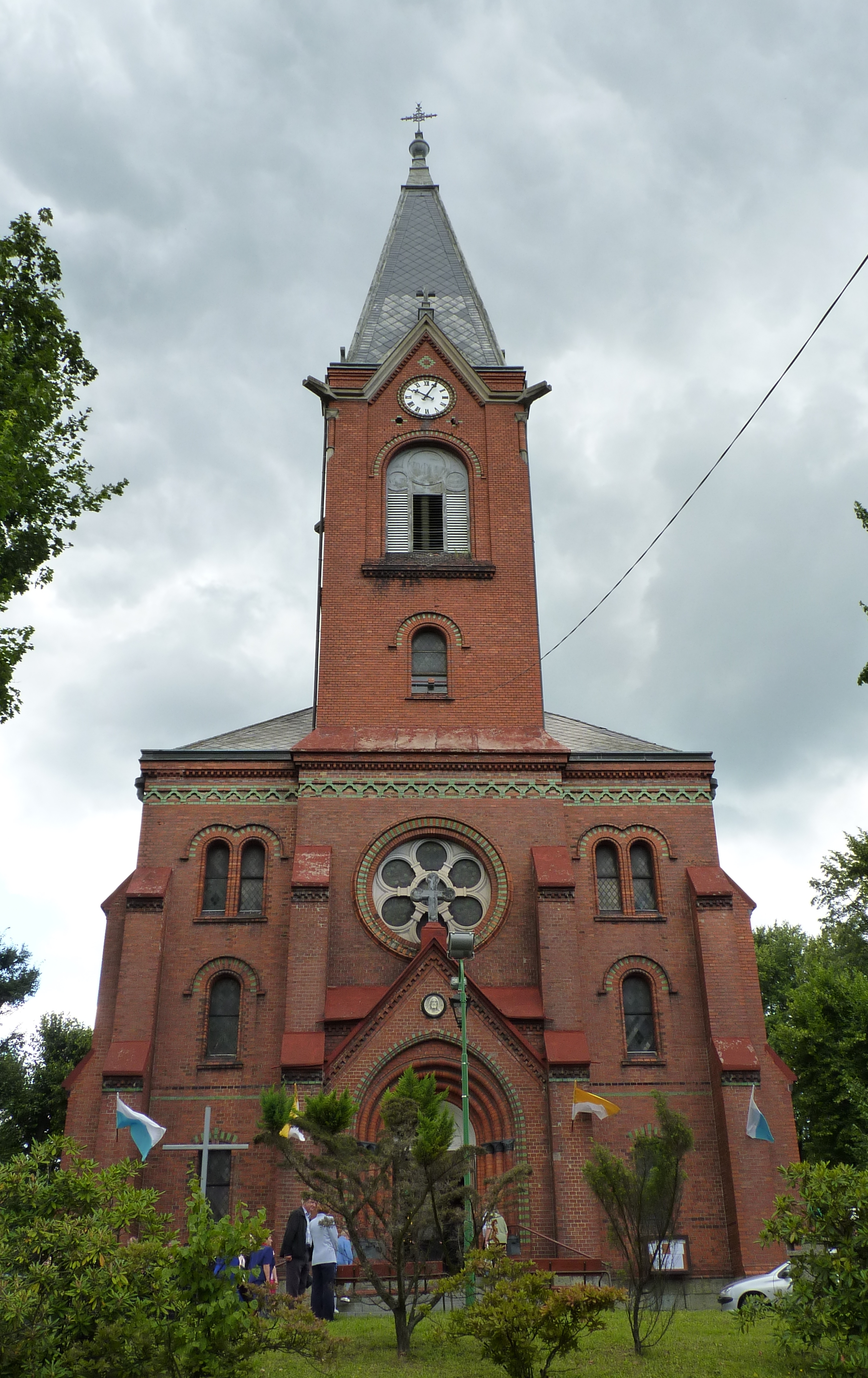 Church of st. Mary Magdalene. Stonava, Karviná District, Moravian-Silesian Region, Czech Republic